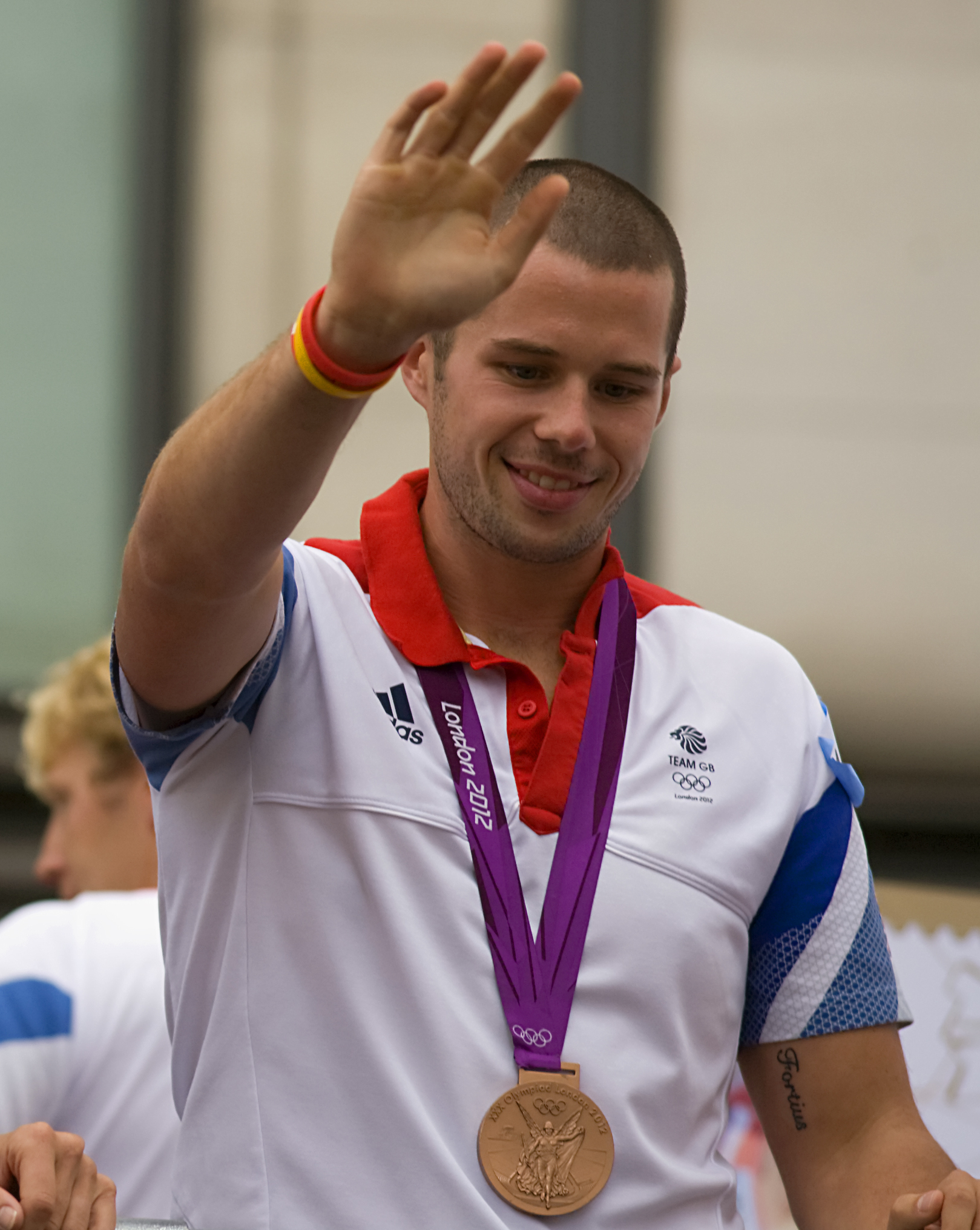 London 2012 Olympic & Paralympic Games Victory Parade, 10th September